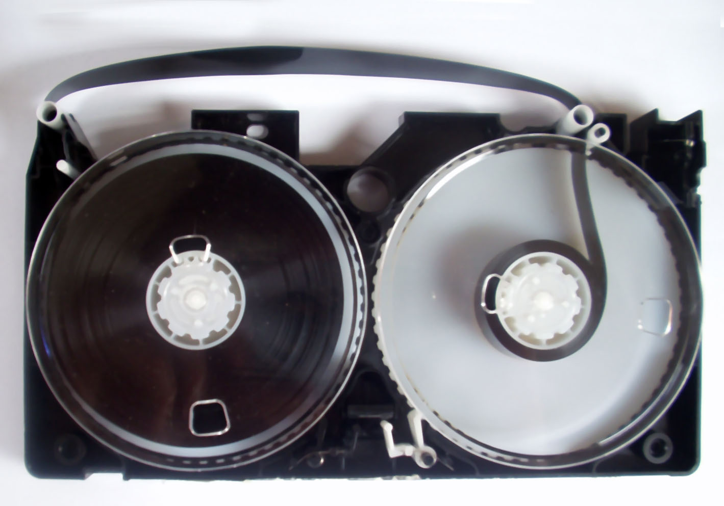 VHS Cassette with the front casing removed.